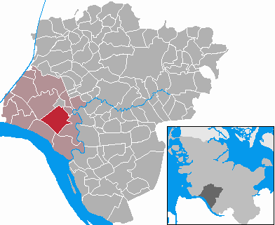 This map shows the area of the municipality Dammfleth in the Kreis (district) Steinburg, Schleswig-Holstein, Germany.